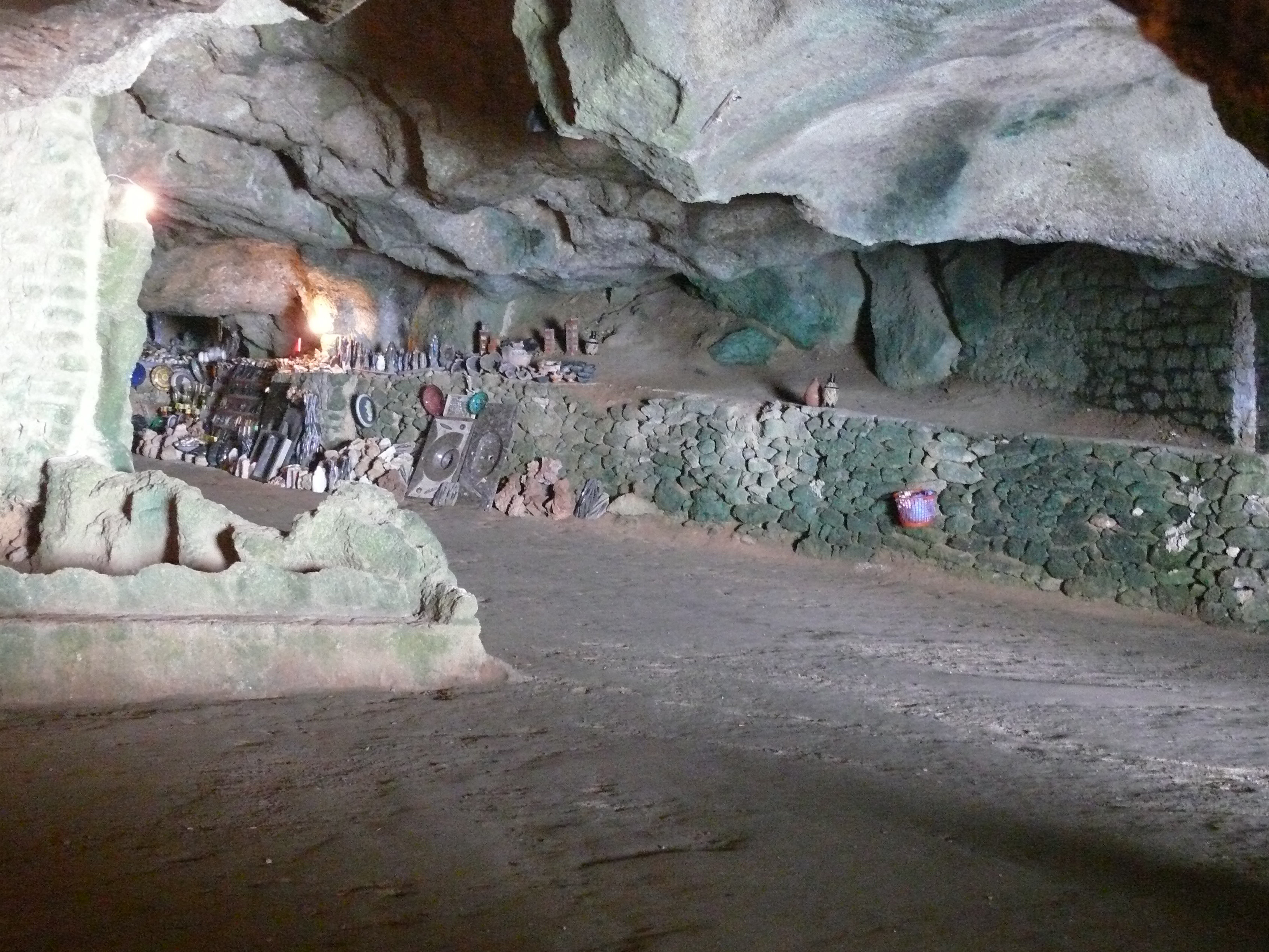 Caves of Hercules near Tanger